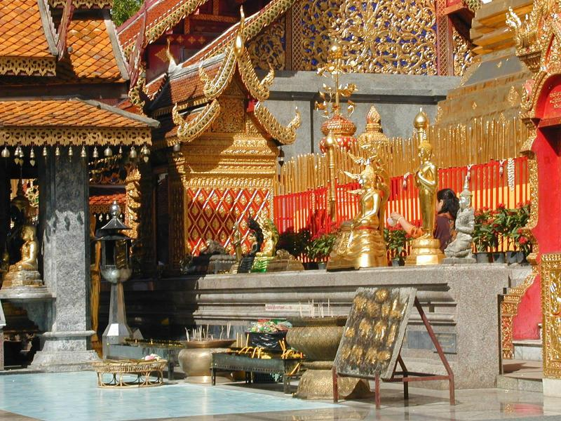 Wat Doi Suthep, Chiang Mai, Thailand.